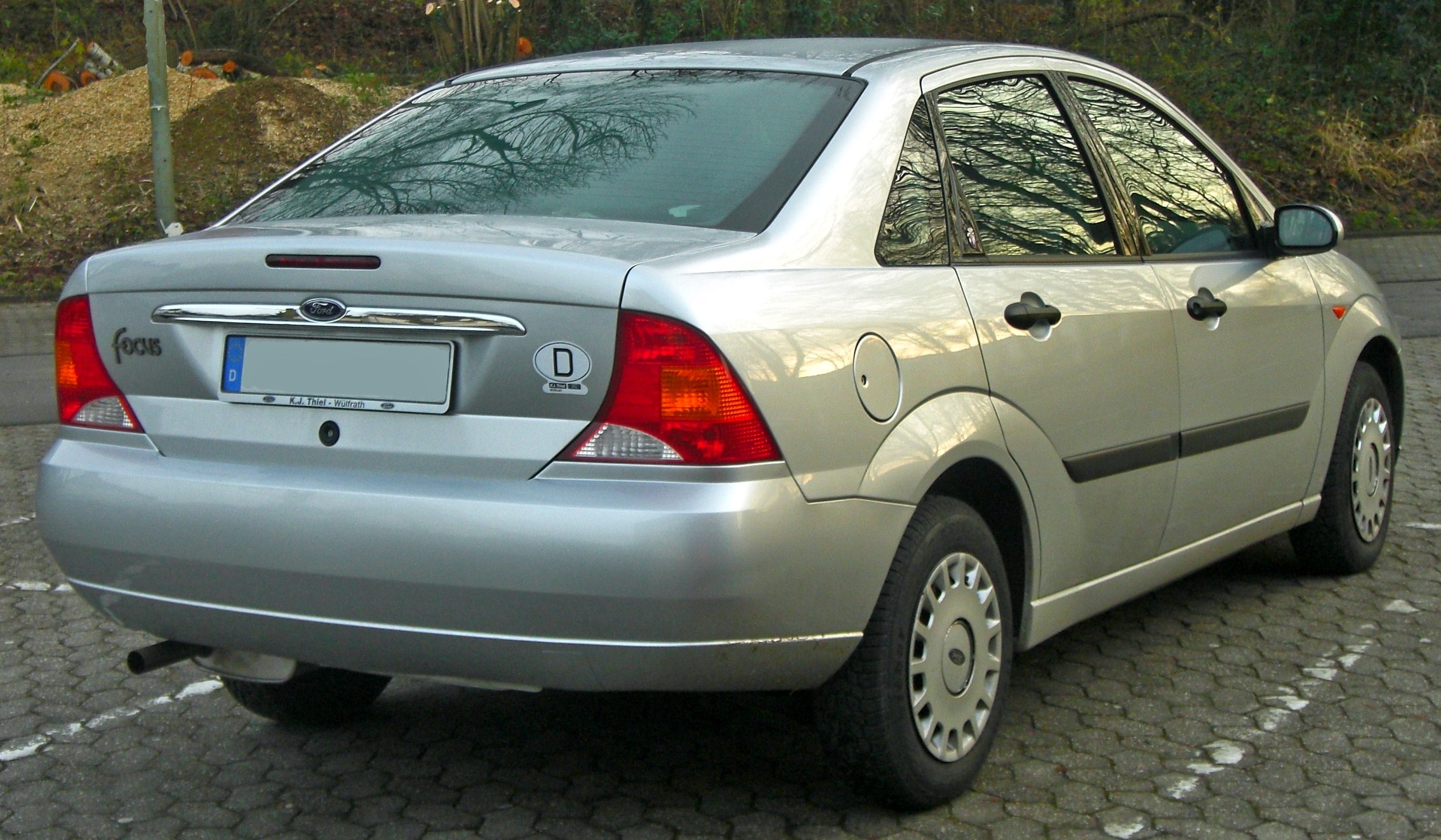 Description: Ford Focus I Stufenheck Source: Matthias Other Version(s)